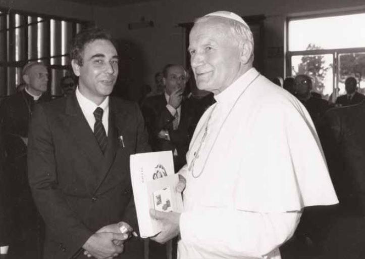 Photo of Pier Auguso Breccia Rome 1985